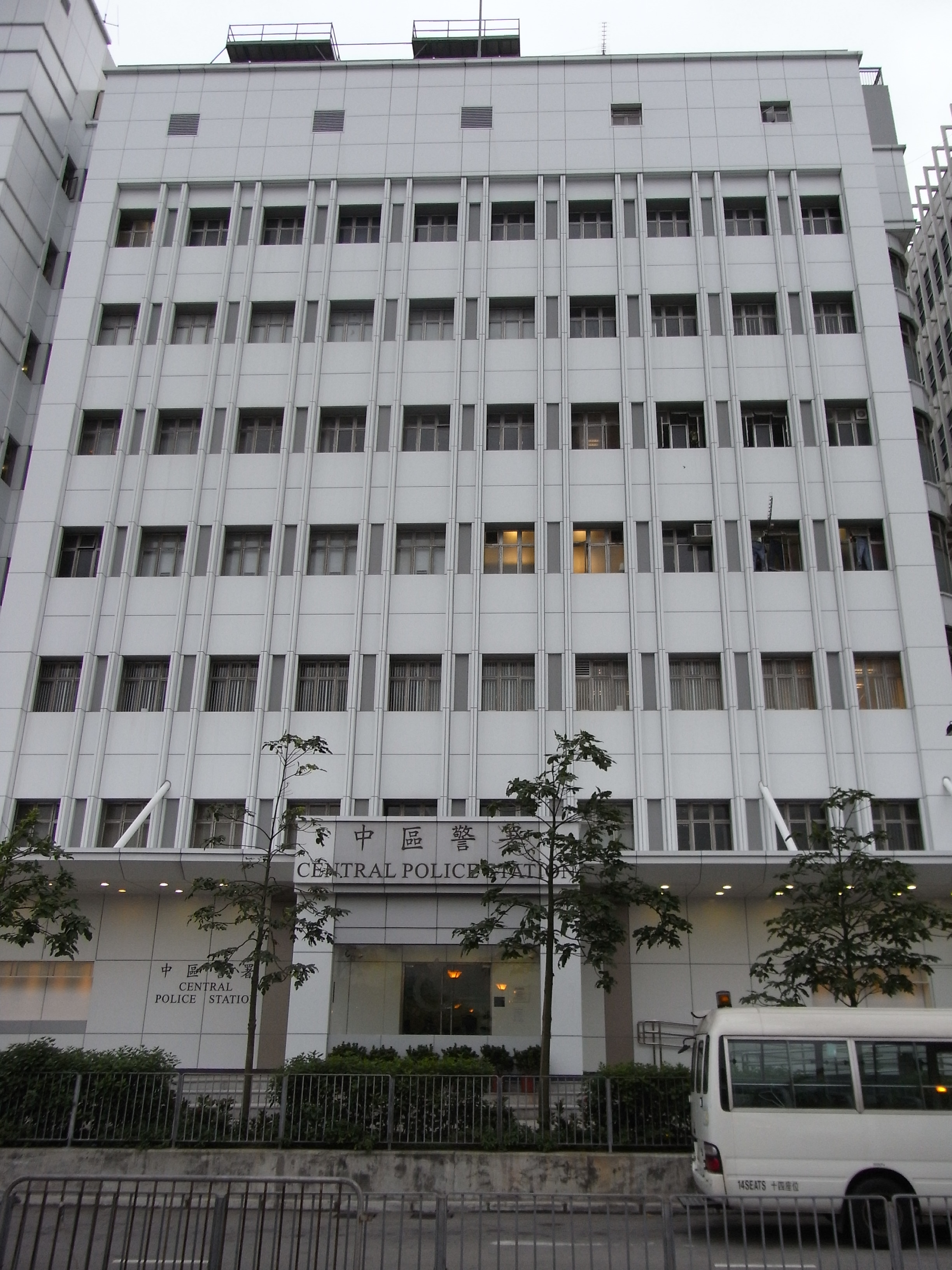 Evening in Chung Kong Road, Sheung Wan, Hong Kong